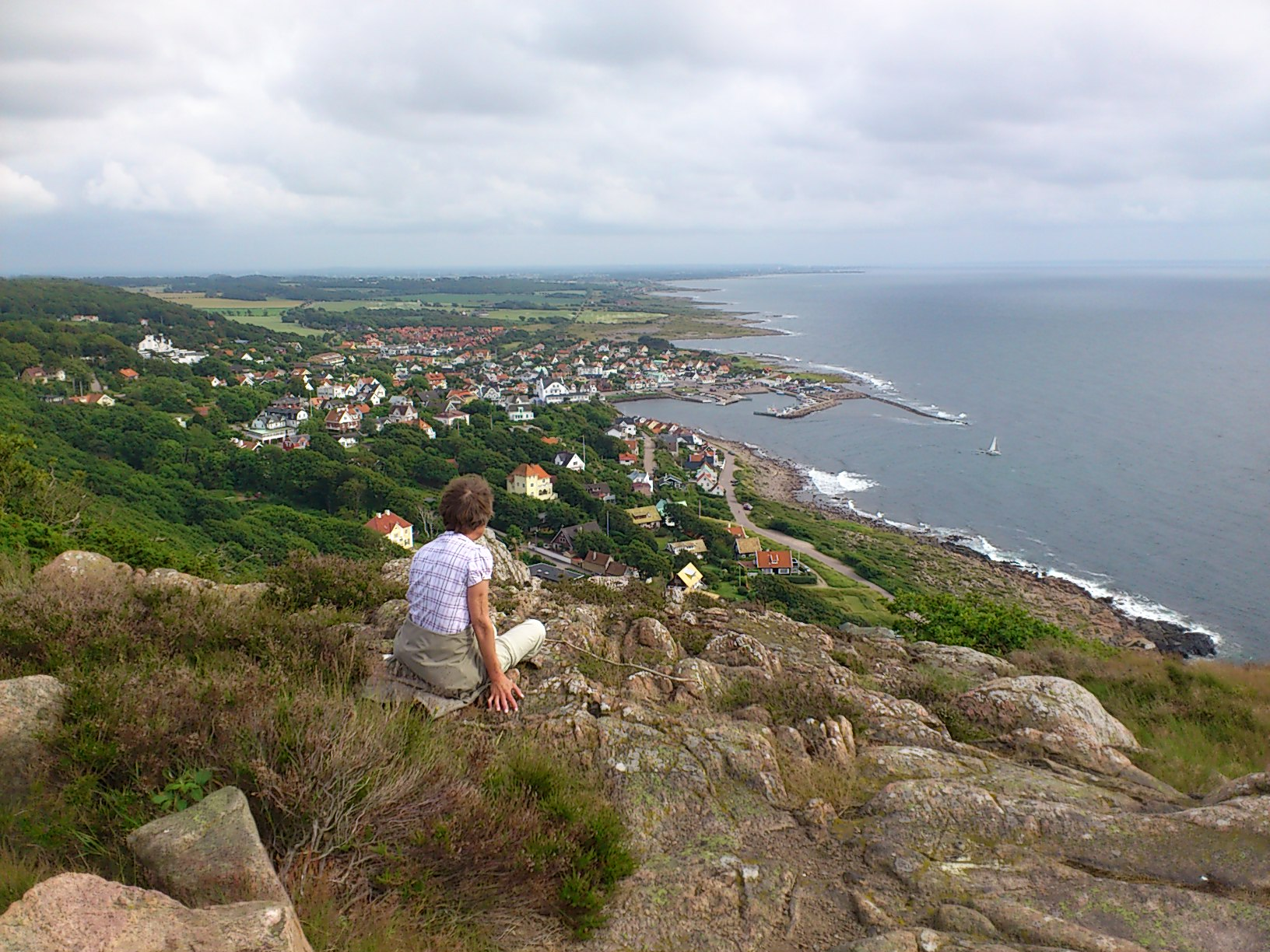 View from the mountain Barakullen at Kullaberg, Sweden